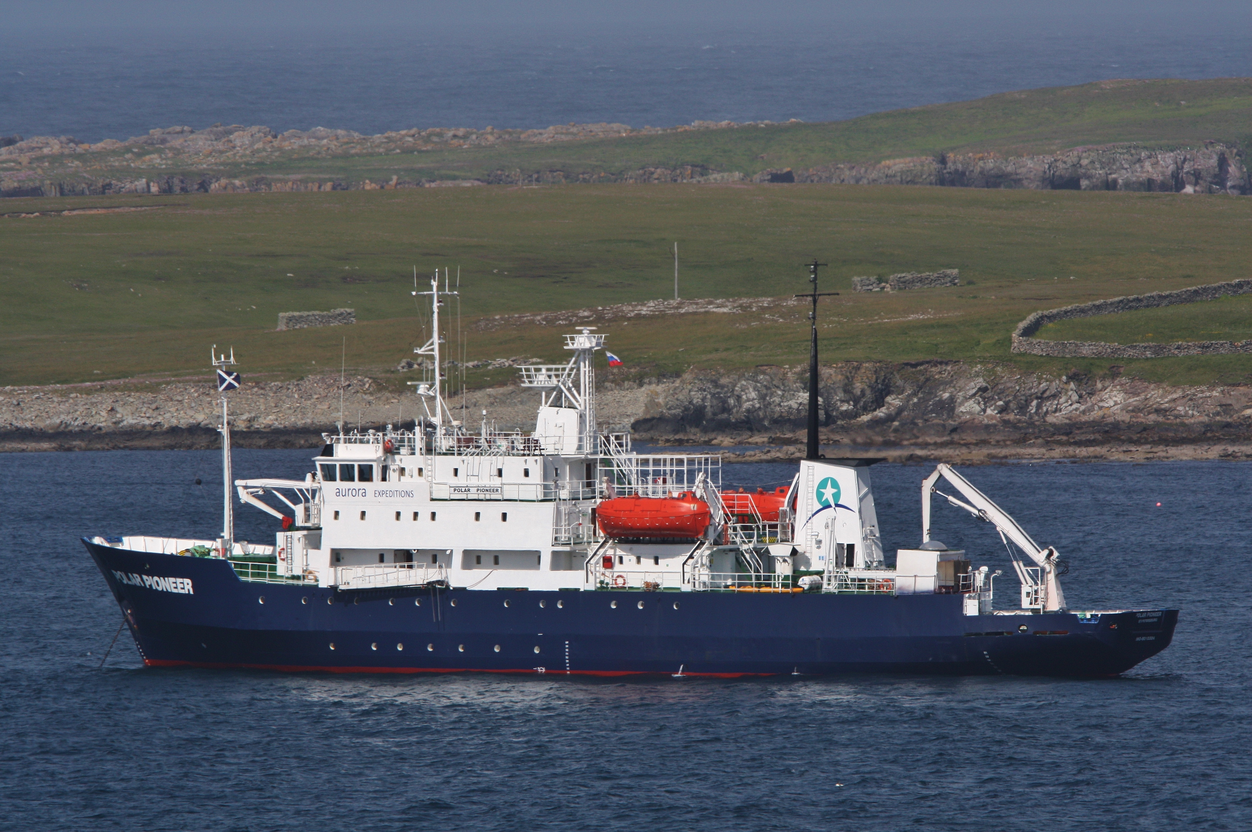 Off our old yoal noost at " Ooter Tumelik " ( Outer Tumblewick ).